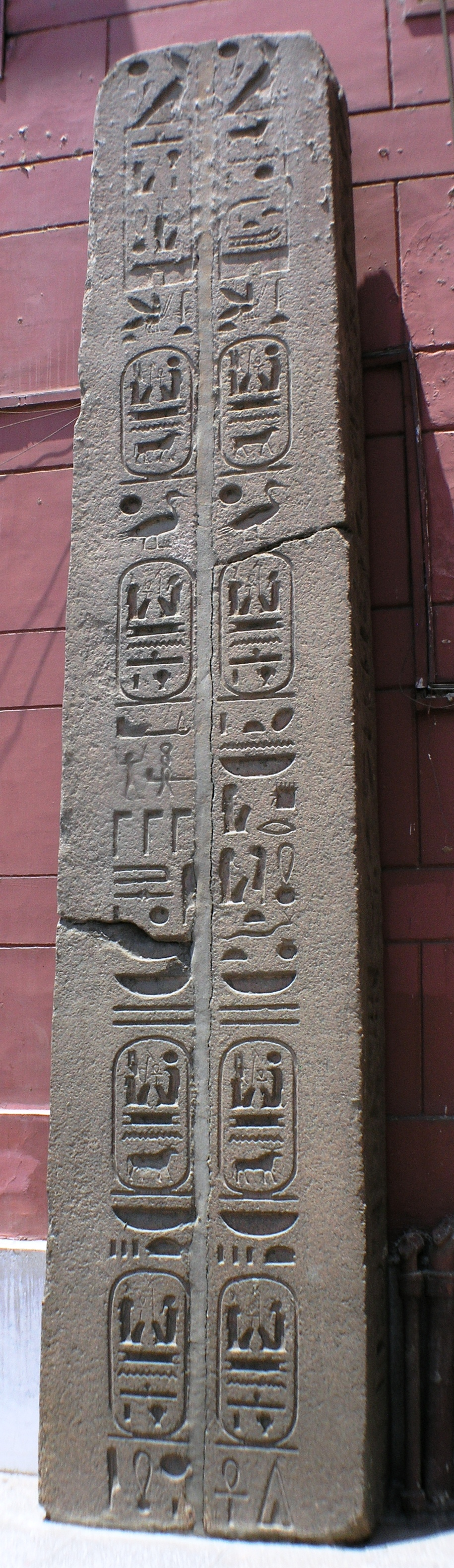 Part of an obelisk with cartouches of Merenptah, 19th dynasty. The obelisk is fragmented in several parts and this one is the more complete. This piece was found at Qaha and therefore is called "obelisk from Qaha", but scholars are convinced of Heliopolis origin as first place for erection of this monument.